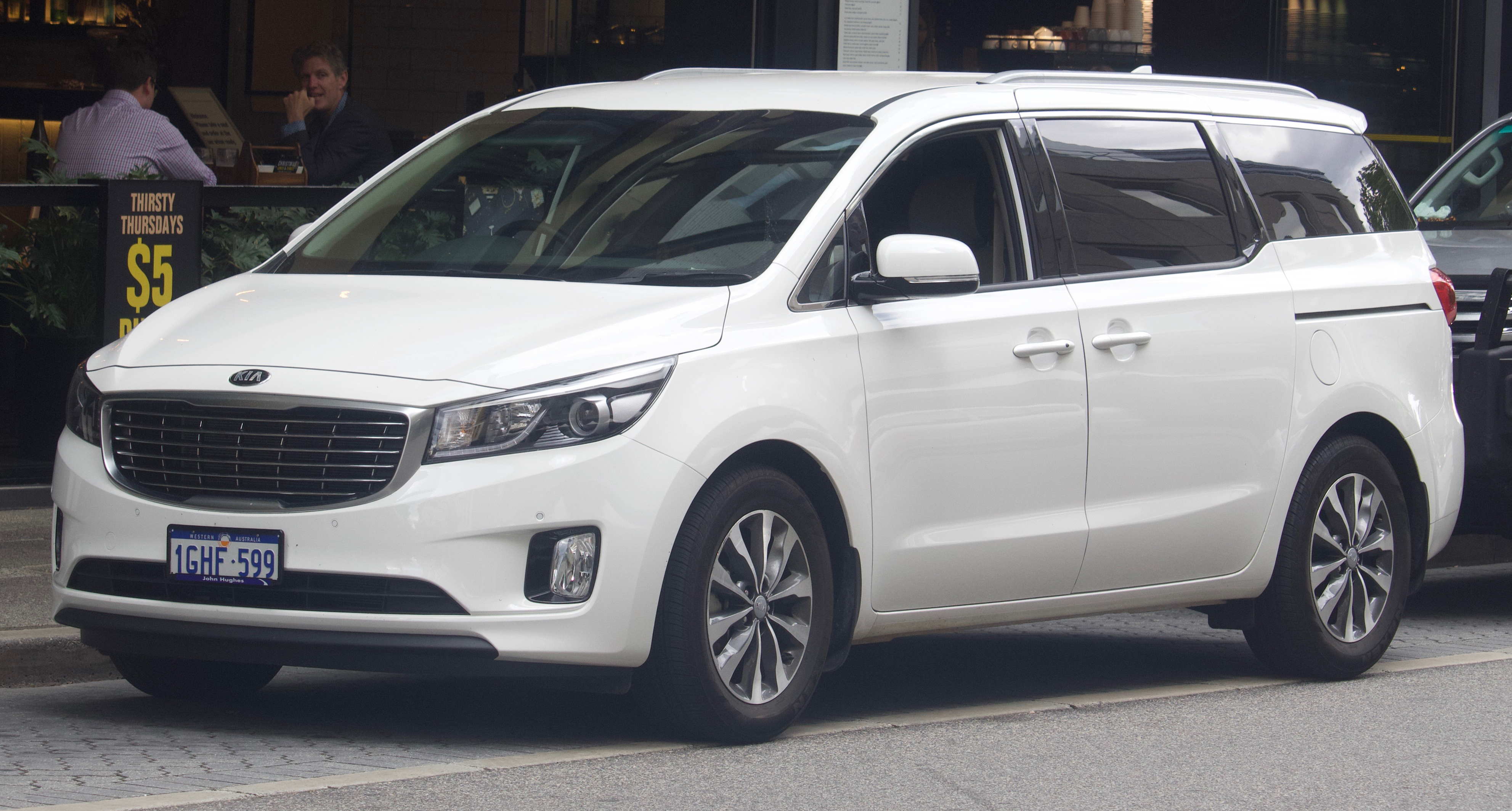 2017 Kia Carnival (YP MY17) SLi van. Photographed in Perth, Western Australia, Australia.